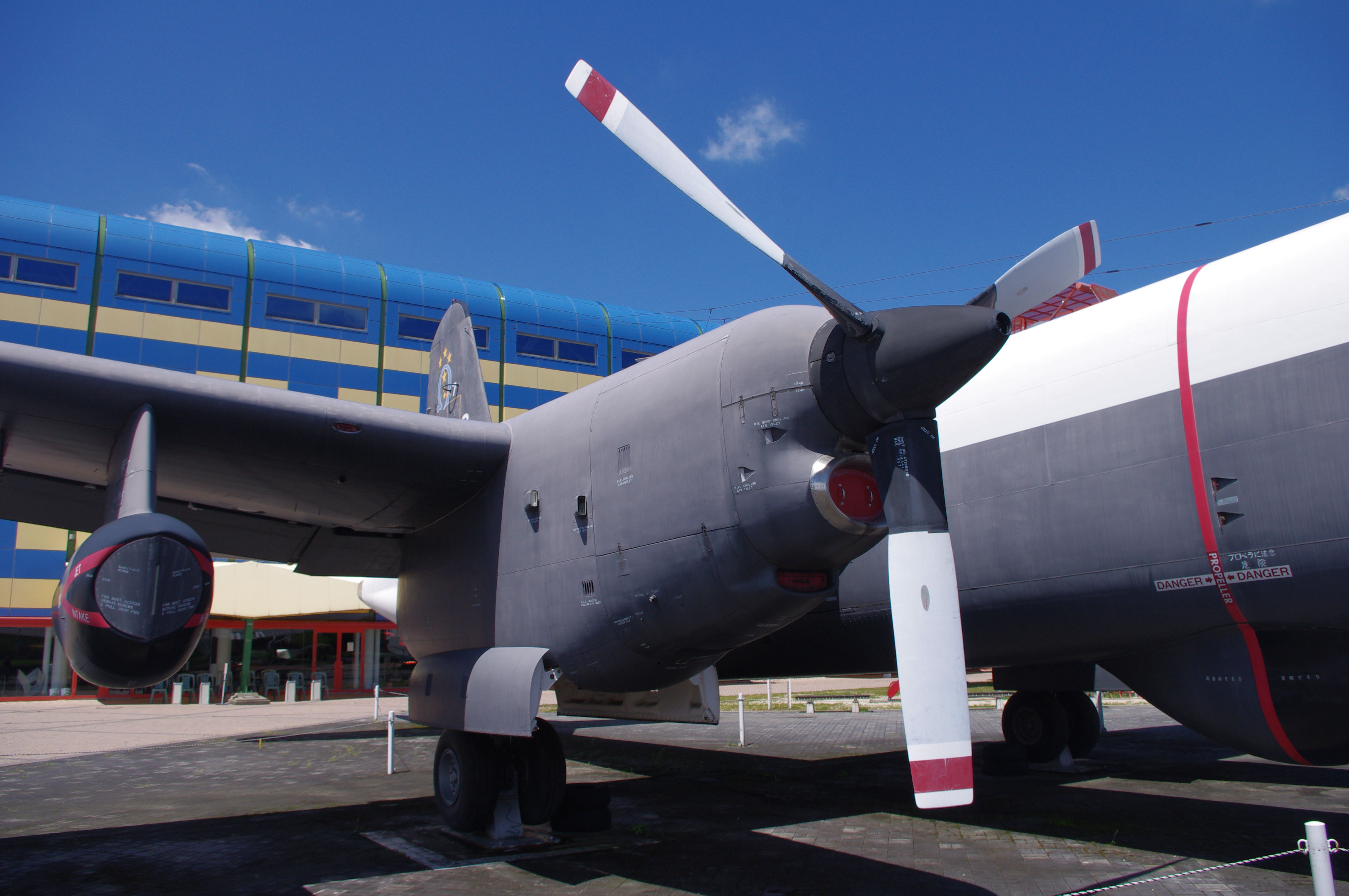 Kawasaki P-2J was modernized Lockheed P-2 Neptune, whose original R-3350 radial-engines were updated to GE T64 turboprops and auxiliary Westinghouse J34 turbojet engines were altered to IHI J3 turbojets. This "4782" was deployed to JMSDF 1st Squadron No.7 air unit in Kanoya and it had taken part in the anti-submarine role until 1994. Taken at Kakamigahara Aerospace Science Museum (かかみがはら航空宇宙科学博物館).